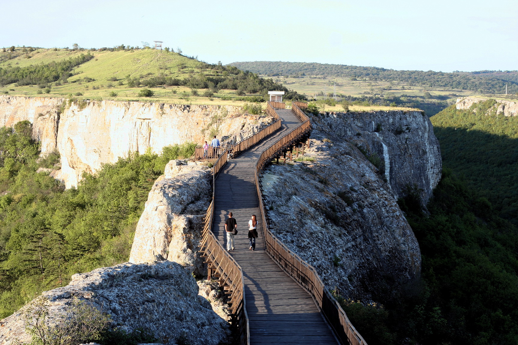 Fortress Ovech, beyond the town Provadia, Bulgaria